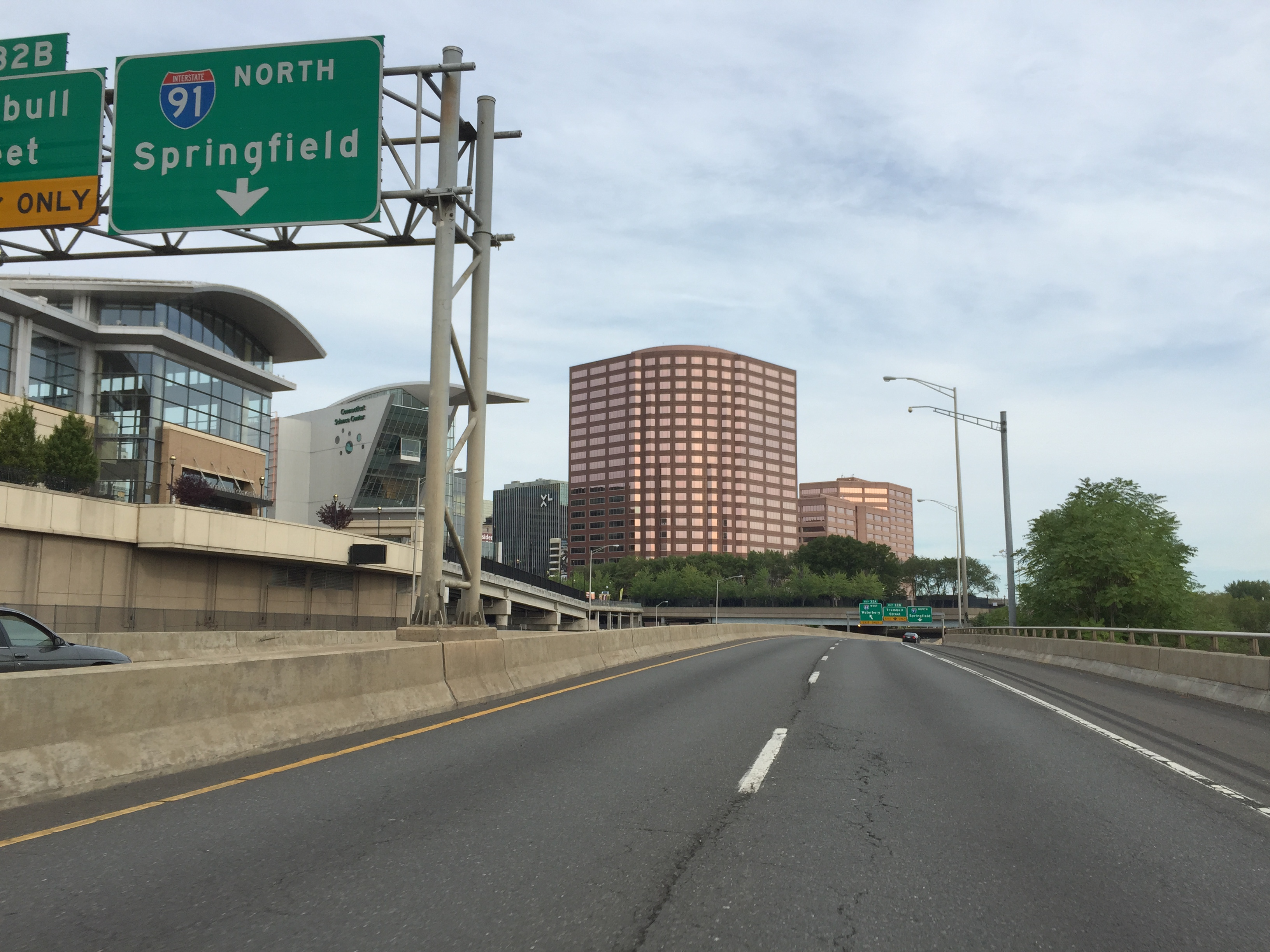 View north along Interstate 91 just north of Exit 32 (Trumball Street/Interstate 84) in Hartford, Hartford County, Connecticut